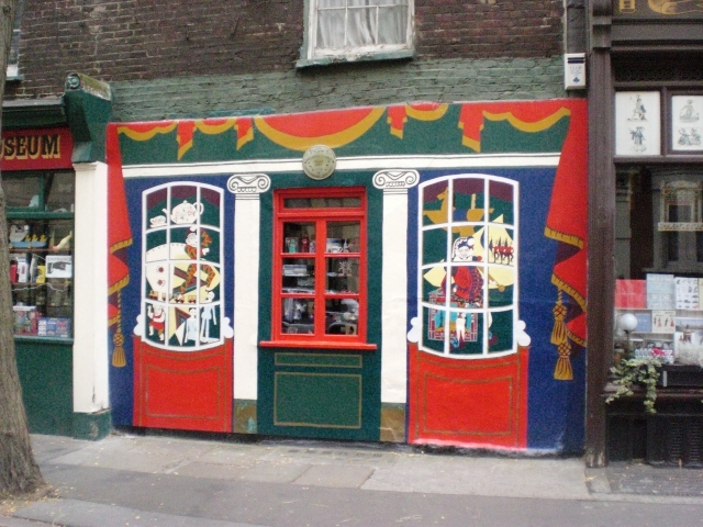 Pollock's Toy Museum, Scala Street W1